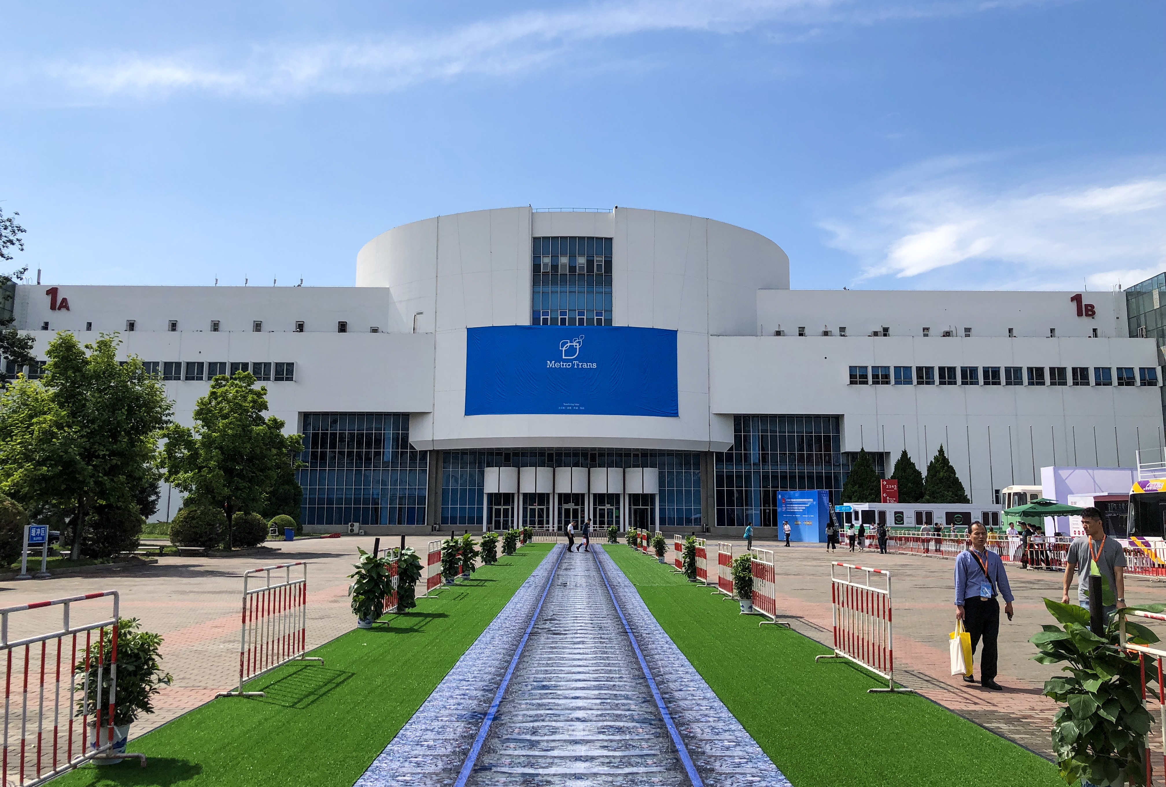 Built in 1985.